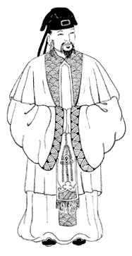 A drawing of the God of the Kitchen, Zao Jun